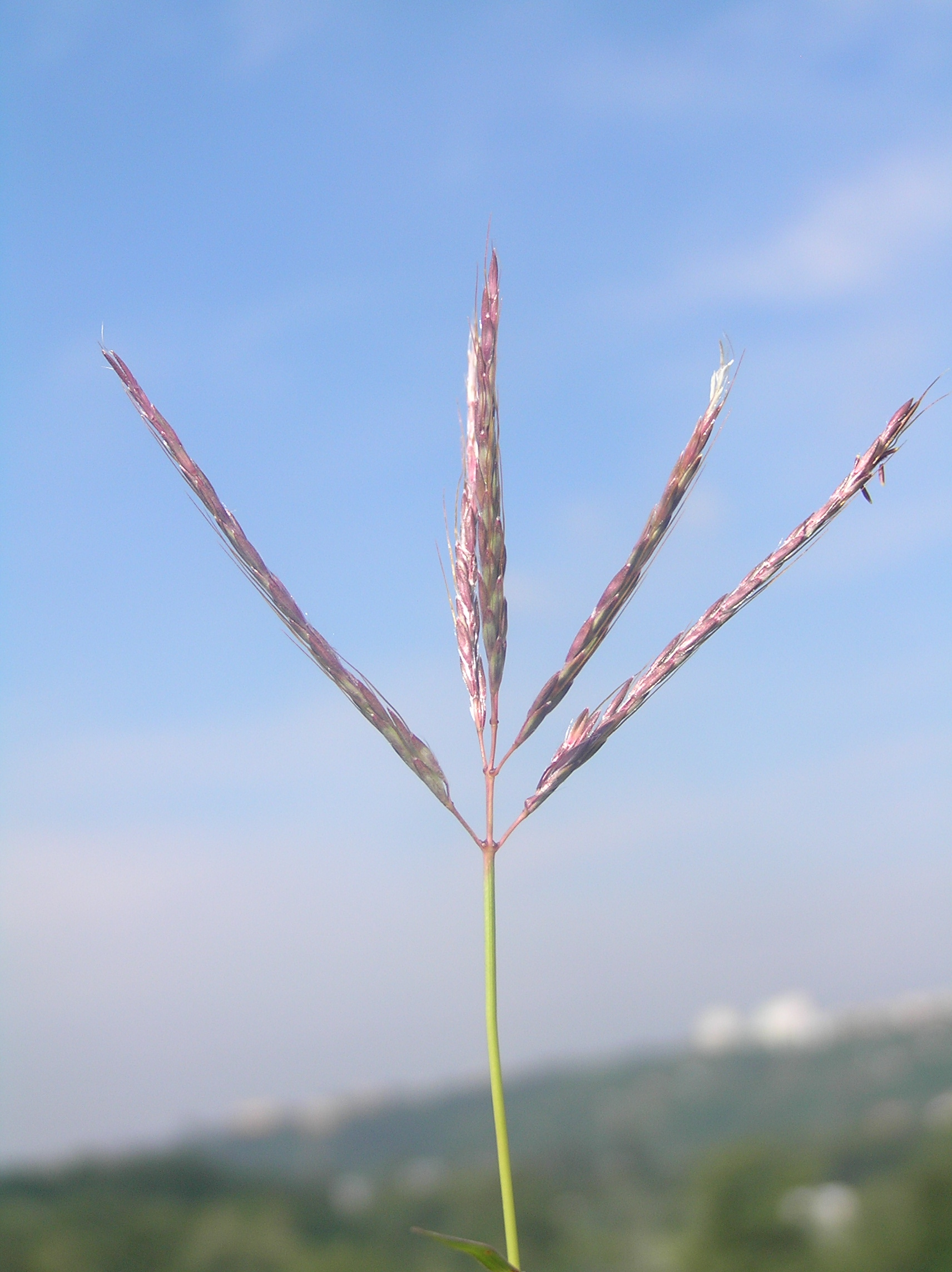 Bothriochloa ischaemum, PP Obřanská stráň, Brno, Czech Republic